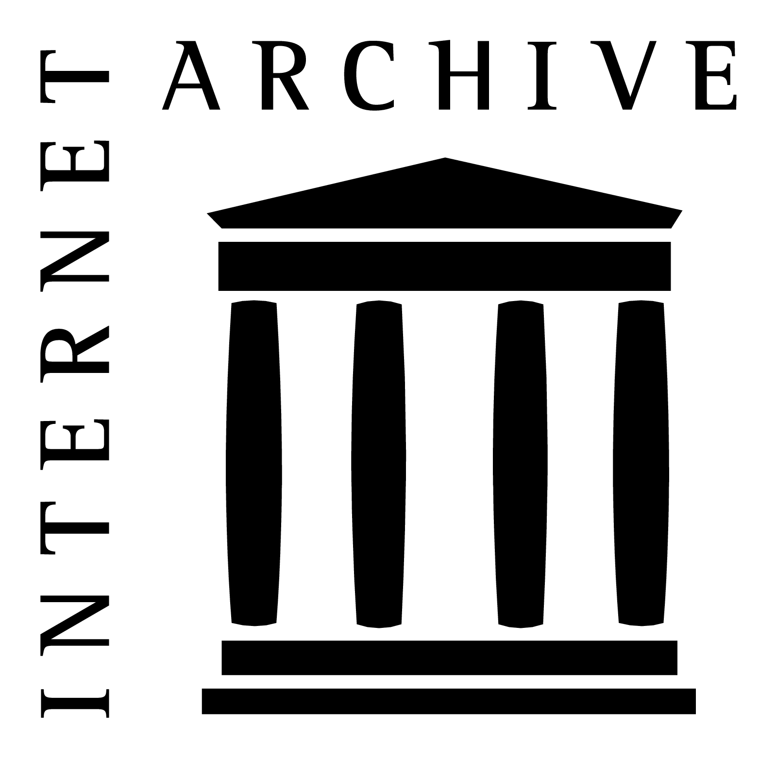 Internet Archive logo and wordmark.